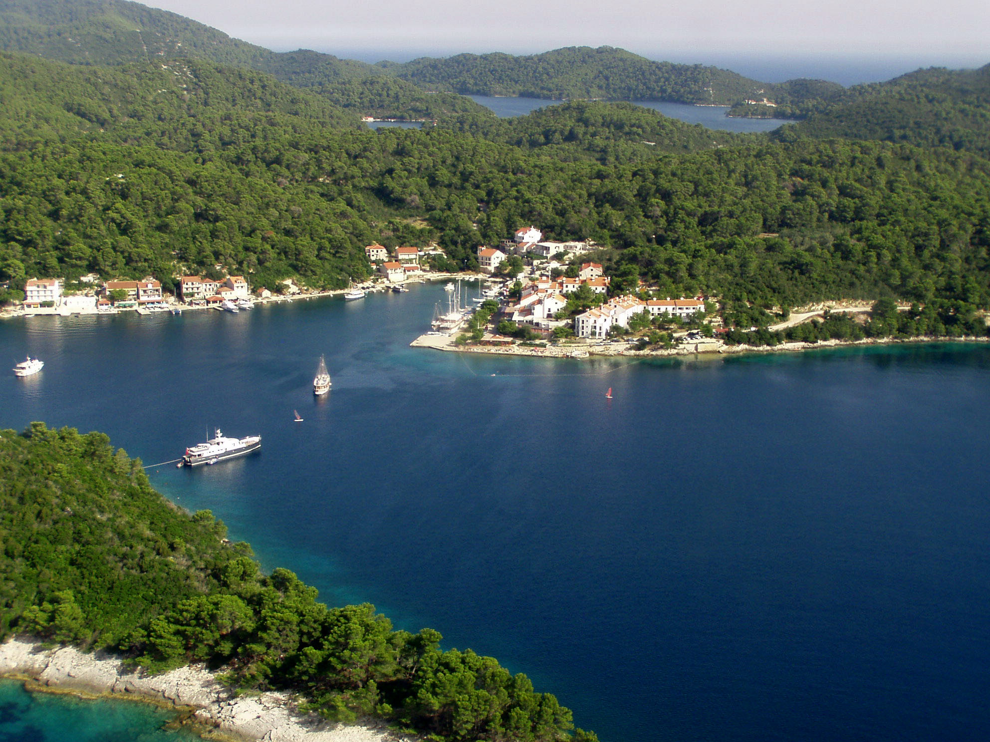 Pomena, main touristic center on the island of Mljet, Croatia